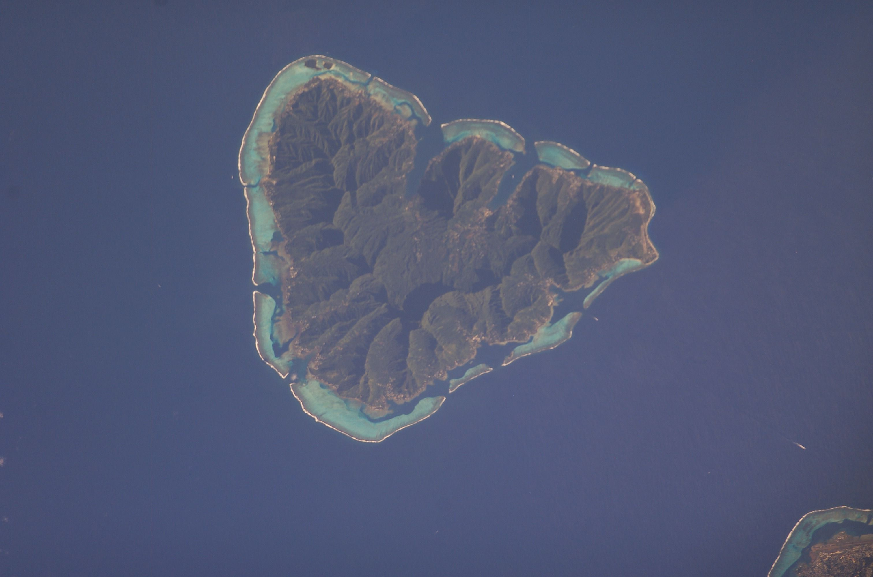 NASA astronaut image of Moorea (French Polynesia) in the Pacific Ocean